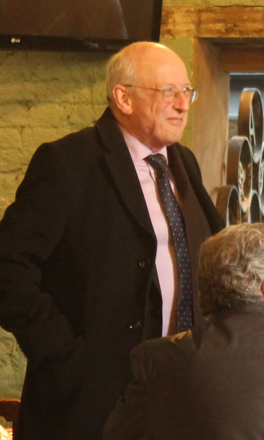 Nick Raynsford, Labour MP for Greenwich & Woolwich